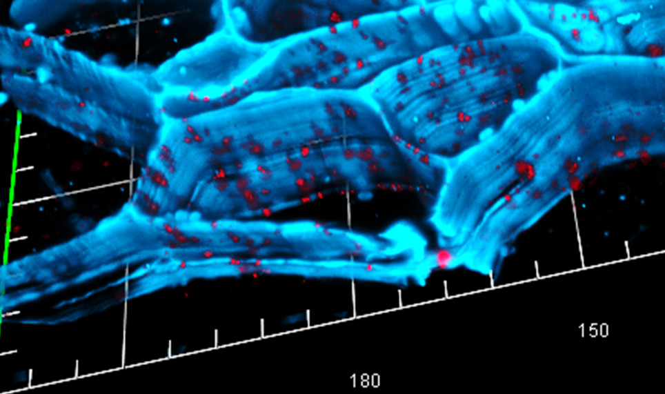 Correlative 3D images show the distribution and orientation of plasmodesmata within the cell walls of root nodules influenced by symbiotic nitrogen-fixing bacteria. Imaged with ZEISS light and electron microscopes and the software module ZEN Correlative Array Tomography Sample courtesy of D. Sherrier, J. Caplan, and S. Modla, University of Delaware, USA. Images donated as part of a GLAM collaboration with Carl Zeiss Microscopy - please contact Andy Mabbett for details.